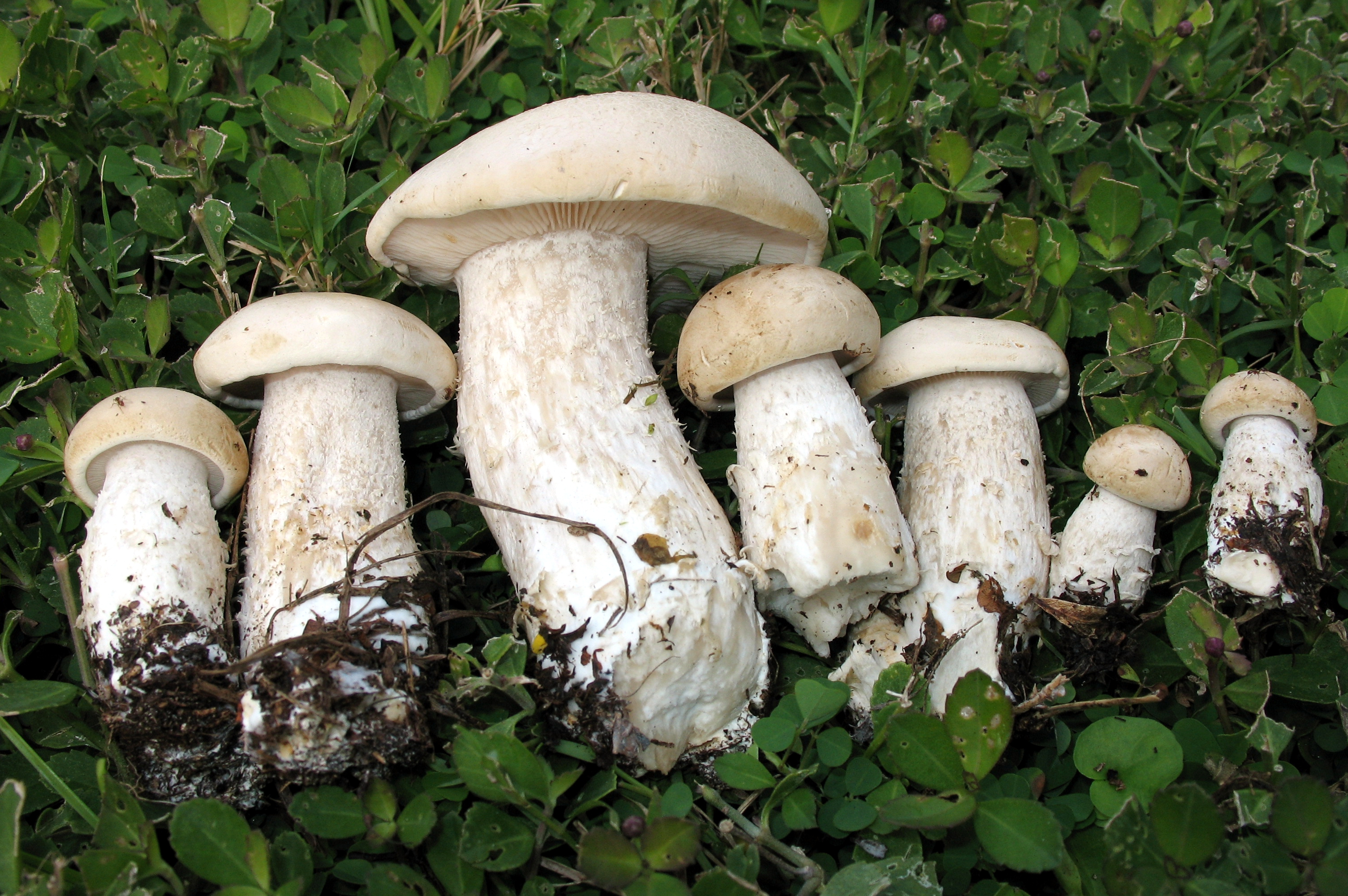 Macrocybe titans (H.E. Bigelow & Kimbr.) Pegler, Lodge & Nakasone Image location: Gainesville, Florida, USA Then I suppose Danny’s suggestion makes sense. Recognized by sight For more information about this, see the observation page at Mushroom Observer.